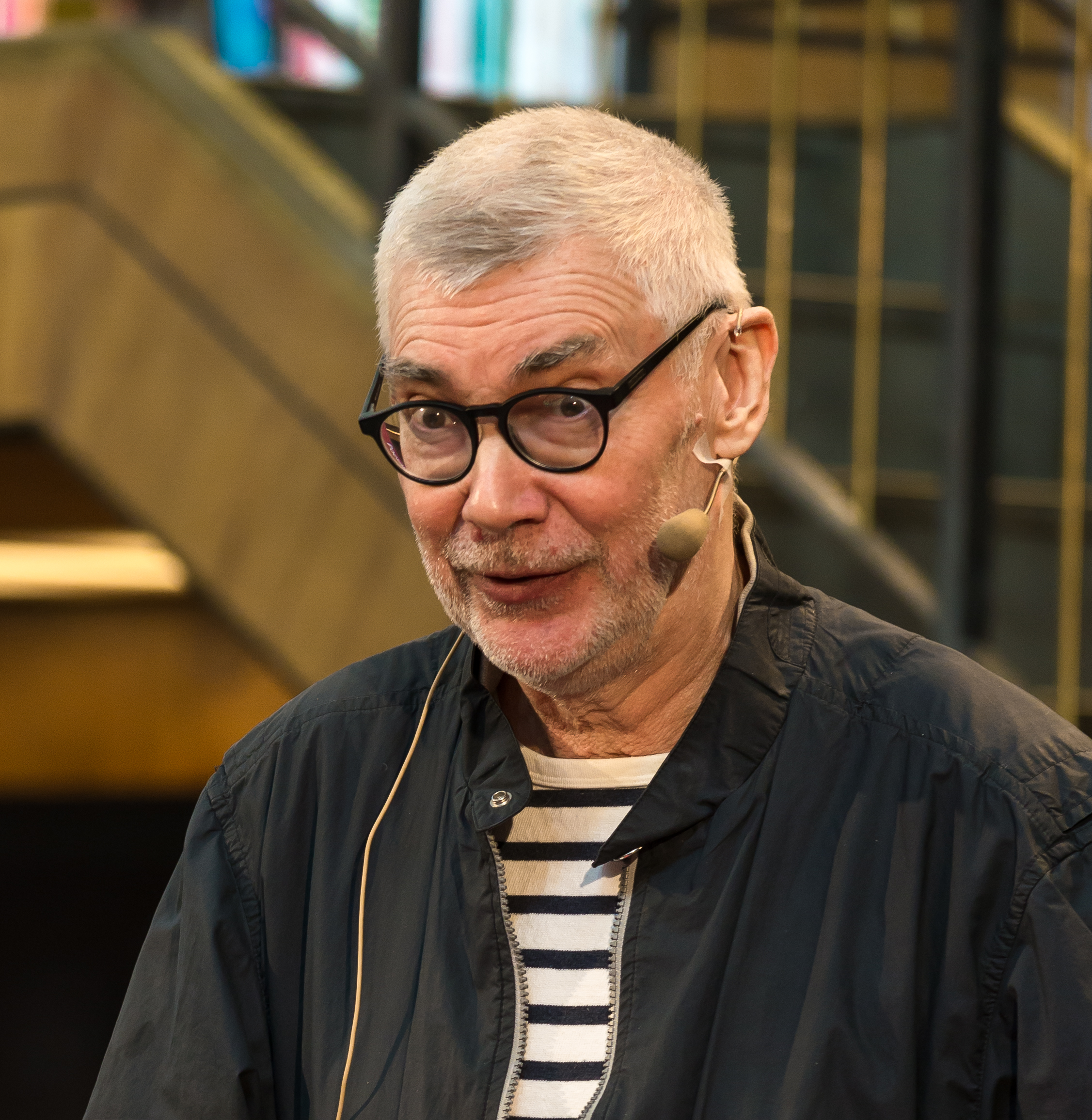 Carl-Johan Malmberg at the Poetry Fair 2017 at the City Library in Stockholm.